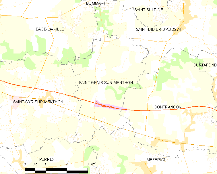 Map of French commune: Saint-Genis-sur-Menthon Map commune FR insee code 01355.png